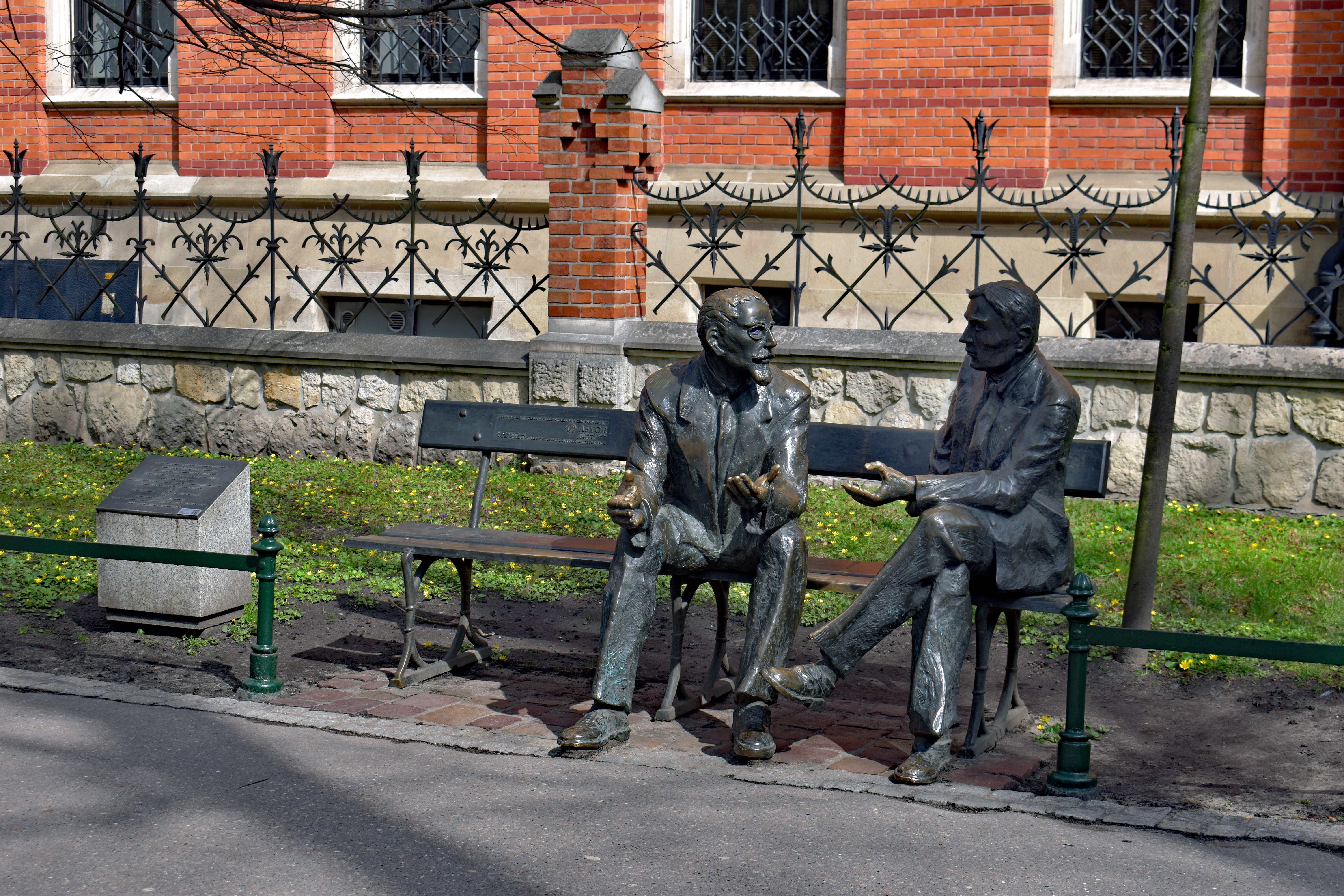 Monument of Polish mathematicians Stefan Banach and Otton Nikodym (2016, designed by Stefan Dousa), Planty Garden Park, Podzamcze street, Old Town, Krakow, Poland